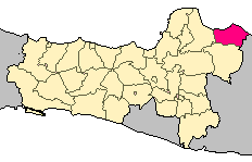 Rembang county in Central Java province, Indonesia